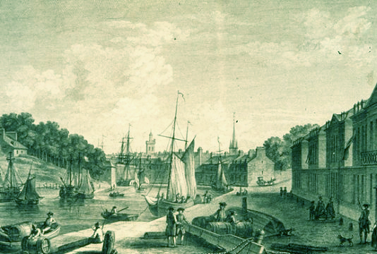 Morlaix (harbour, harbor)